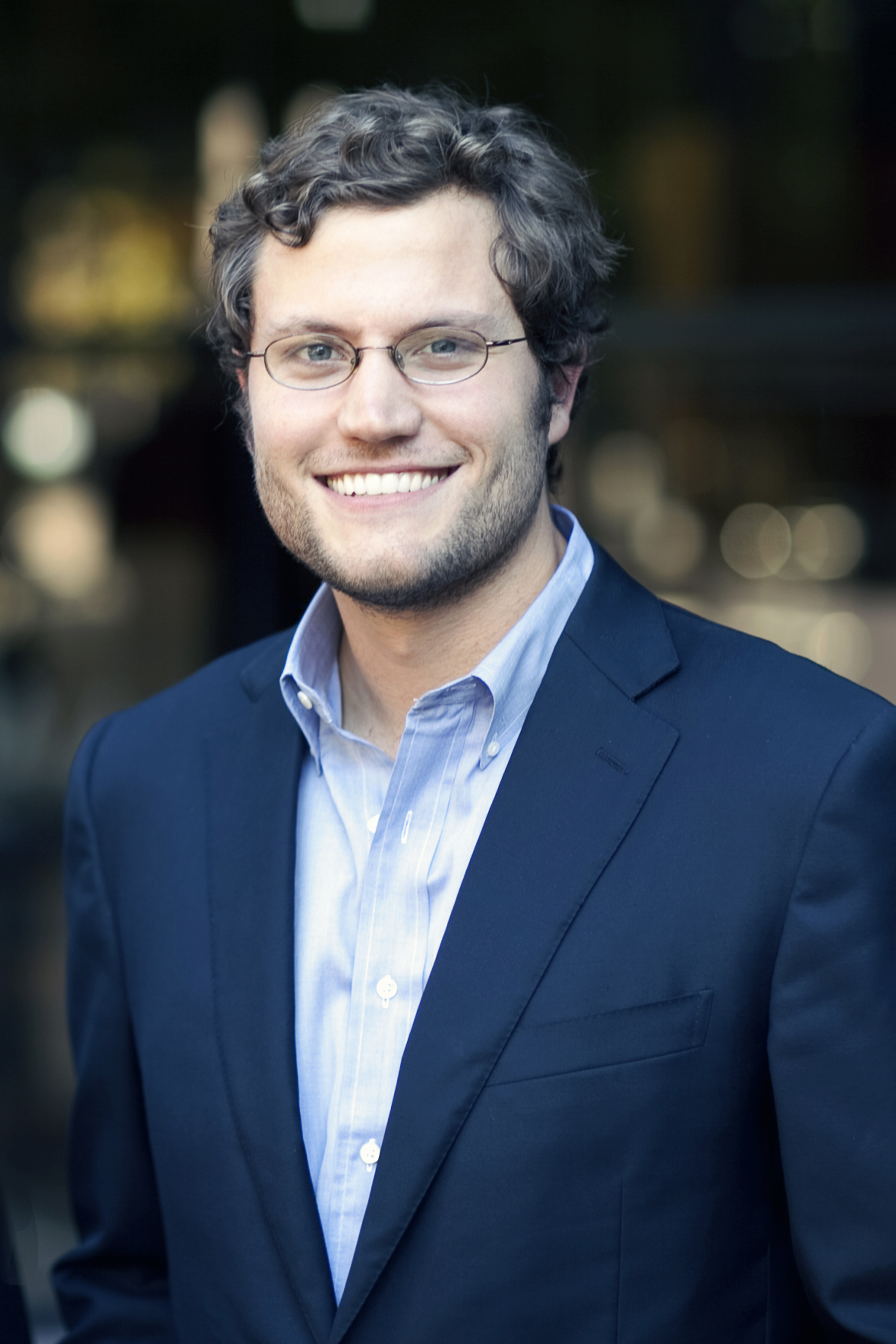 Ben Casnocha in San Francisco in late 2011.